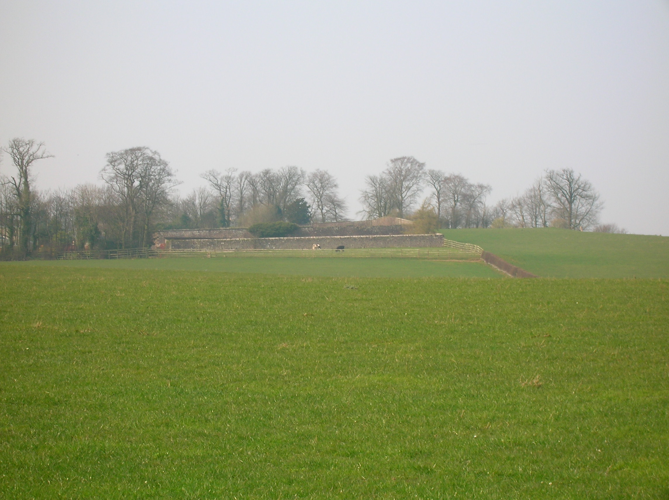 A view of Thorntoun from Crosshousenear Holm Bridge. North Ayrshire. Scotland. 2007.